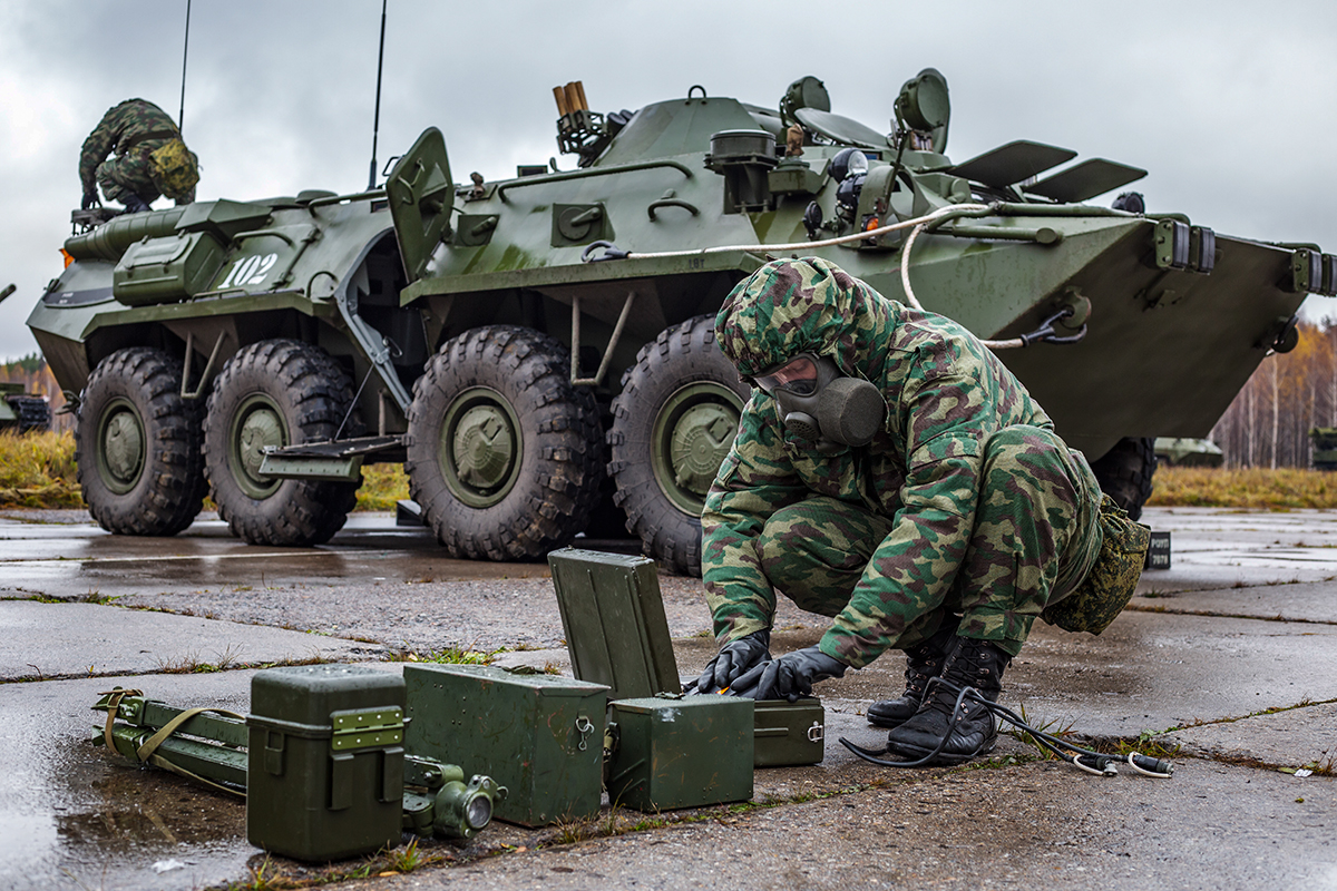 282nd NBC Protection Troops Training Center. RKhM-4.